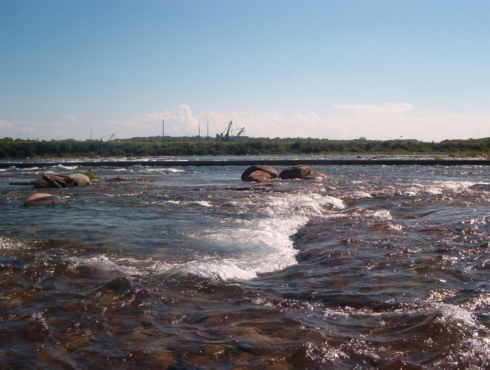 St. Mary's Rapids, Sault Ste. Marie, Ontario/Michigan.